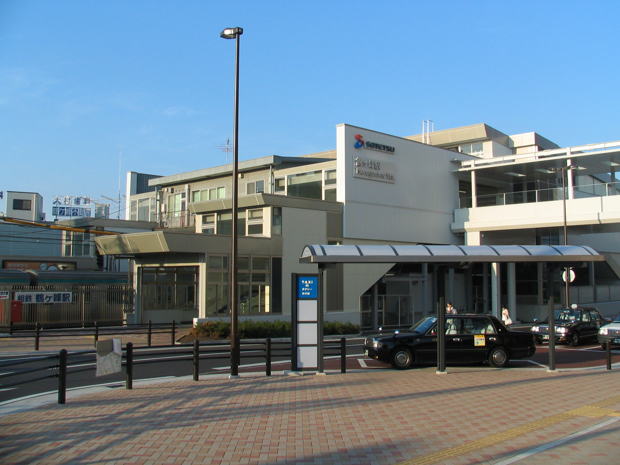 相模鉄道鶴ヶ峰駅Tsurugamine Station (Sagami Railway Main Line).